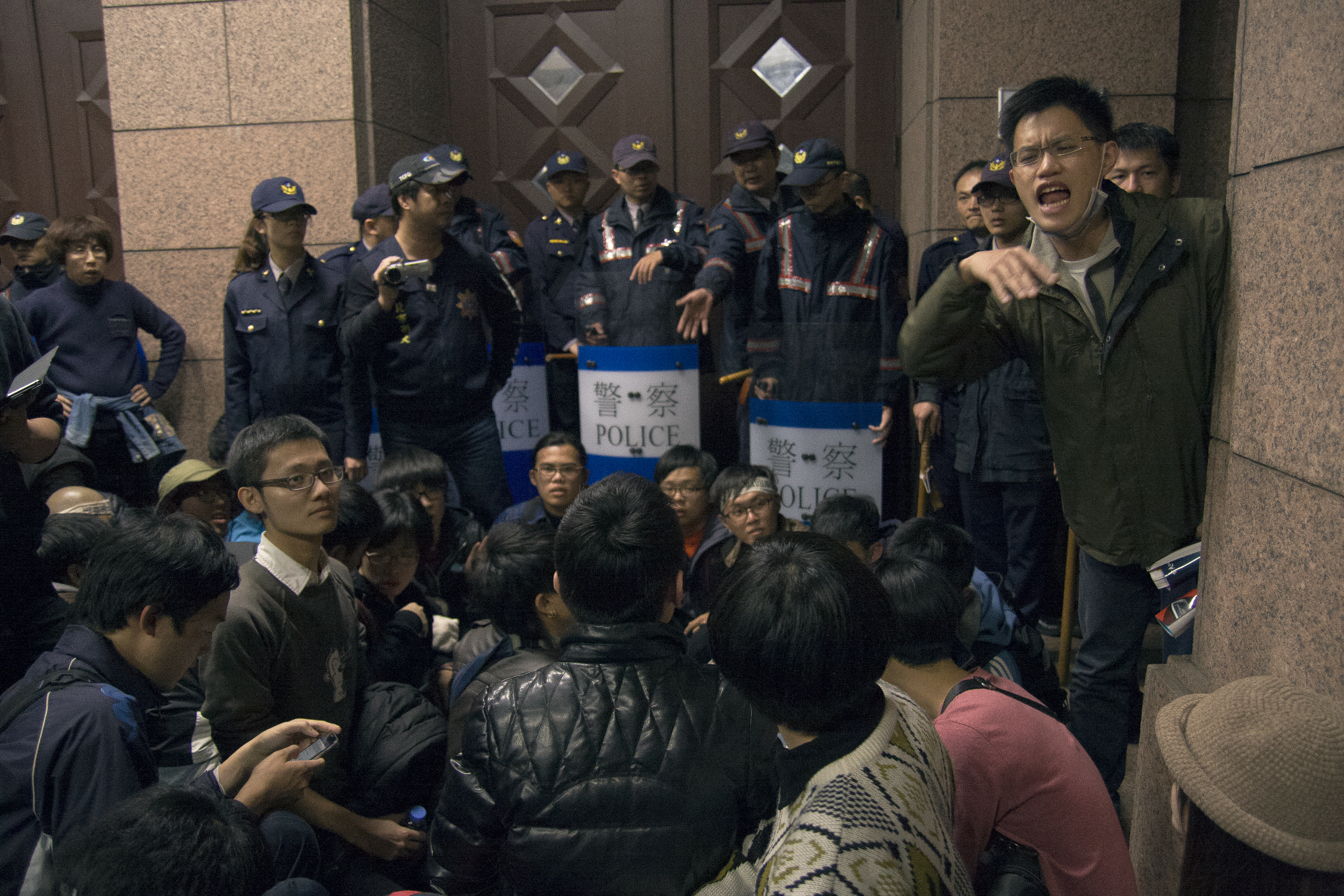 Students sit down at the front door of the ROC Executive Yuan (行政院) across from guarding police, determined to make their grievances known. The students' cries for reversing the Cross-Strait Service Trade Agreement have fallen on deaf ears to ROC President Ma Ying-Jeou (馬英九) and his KMT-controlled government.